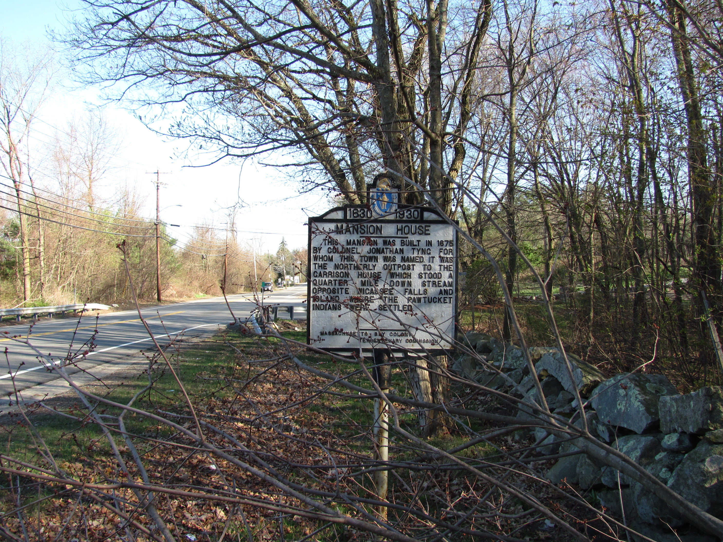 Col. Jonathan Tyng House, Tyngsborough Massachusetts